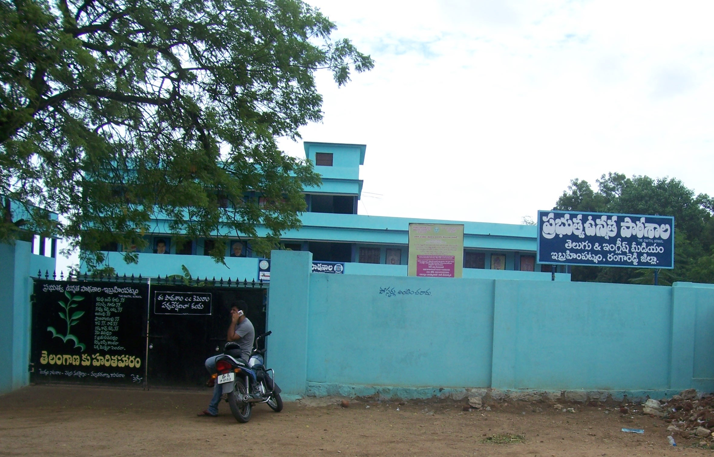 Govt. high school at ibrahimatnam.